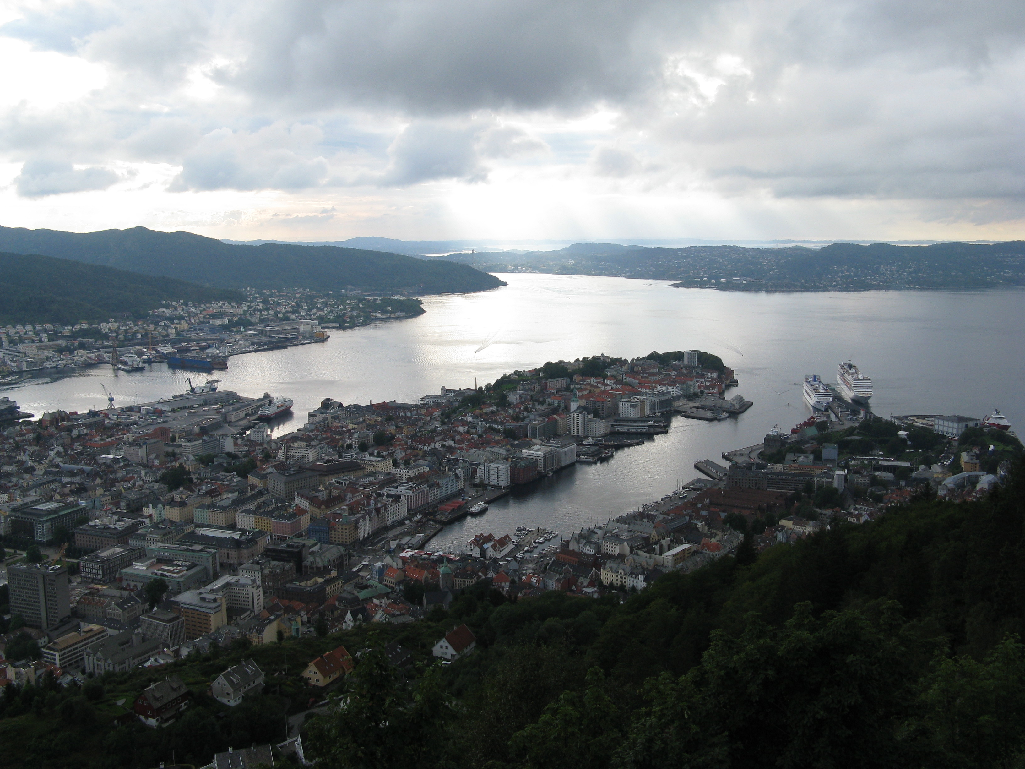 Views of Bergen.